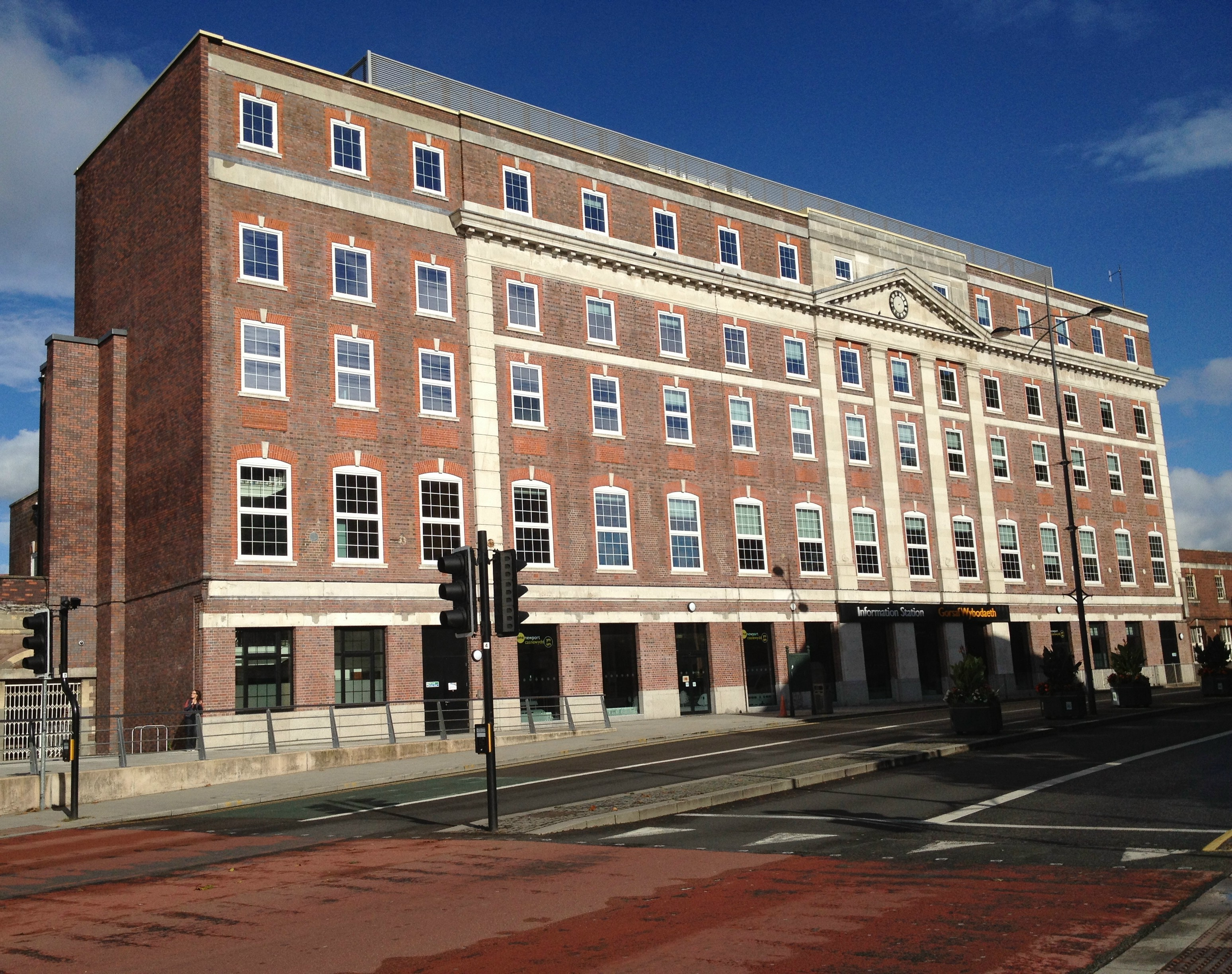 Exterior view of former concourse, Newport Station, South Wales